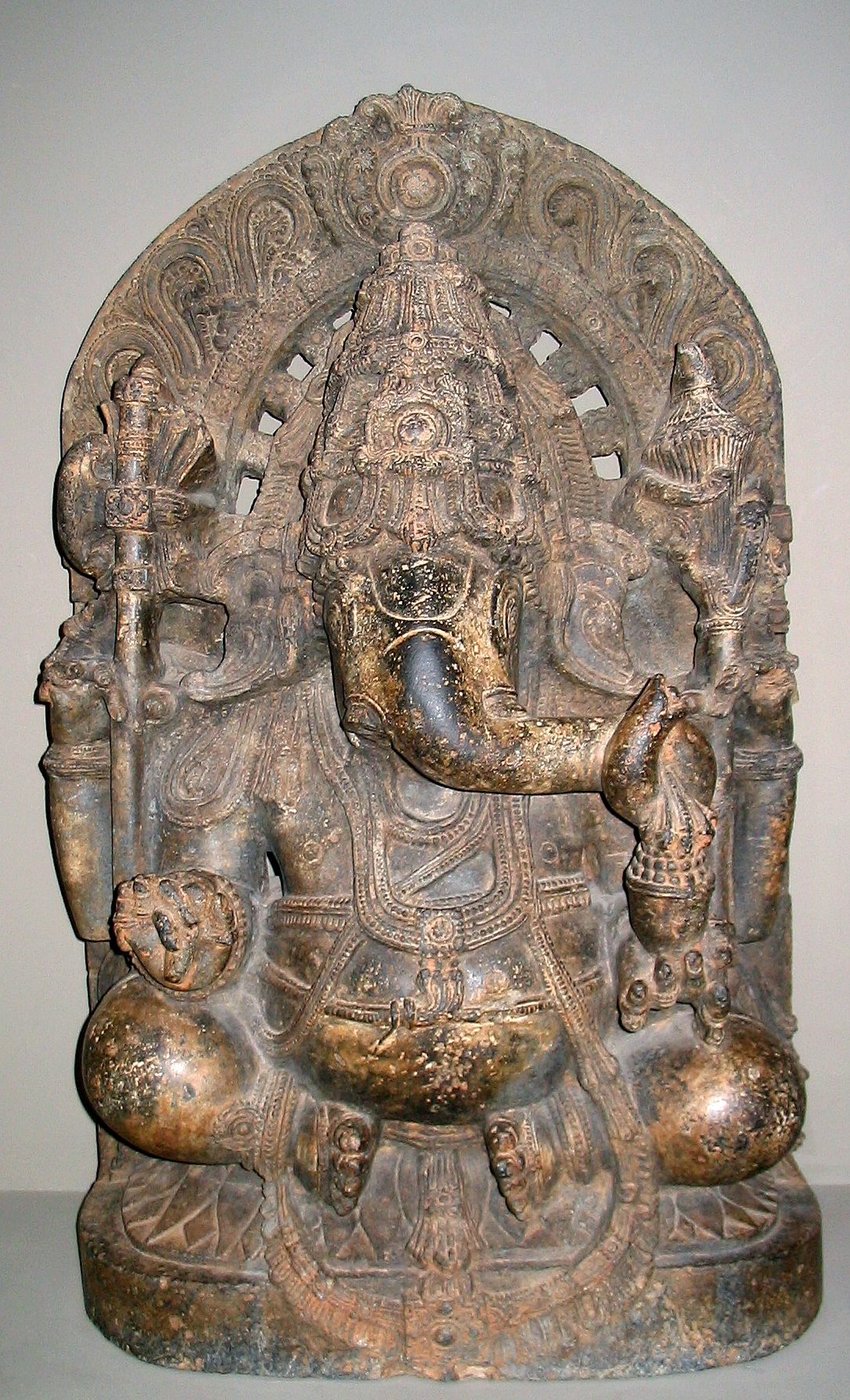 Seated Ganesha 12th-13th century Hoysala dynasty Chloritic schist H: 88.6 W: 53.7 D: 33.7 cm Halebid, Karnataka, India This sculpture displays the ornate carving and exuberant decoration characteristic of art created under the Hoysala dynasty (1042–1346). The decorated floral arch surrounding the sculpture suggests that it once occupied a cell or niche in a temple. Housed in the Arthur M. Sackler Gallery in the Smithsonian, Washington, D.C.[1]